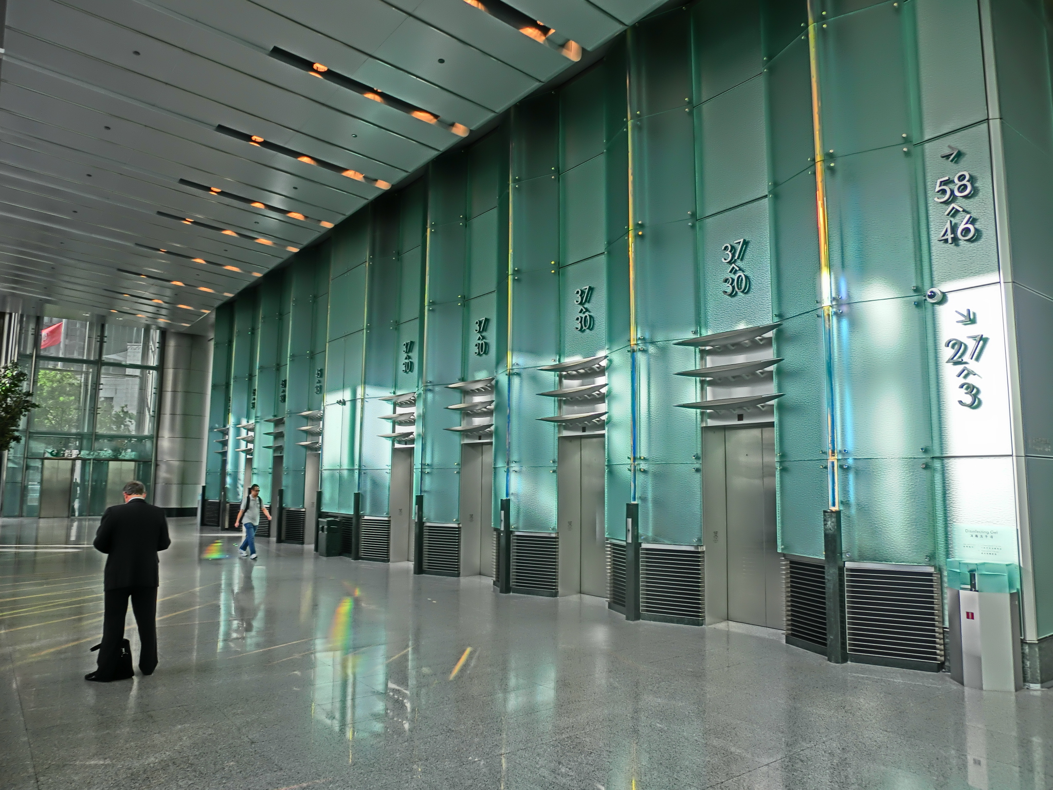 長江集團中心 Cheung Kong Center, Garden Road, Central, Hong Kong